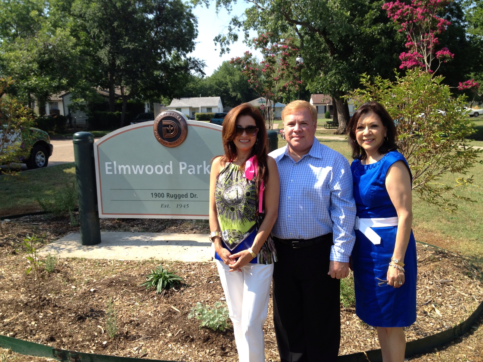 Photo from the trail dedication at Elmwood Park with Elba Garcia, Randy Cress, and Delia Jasso